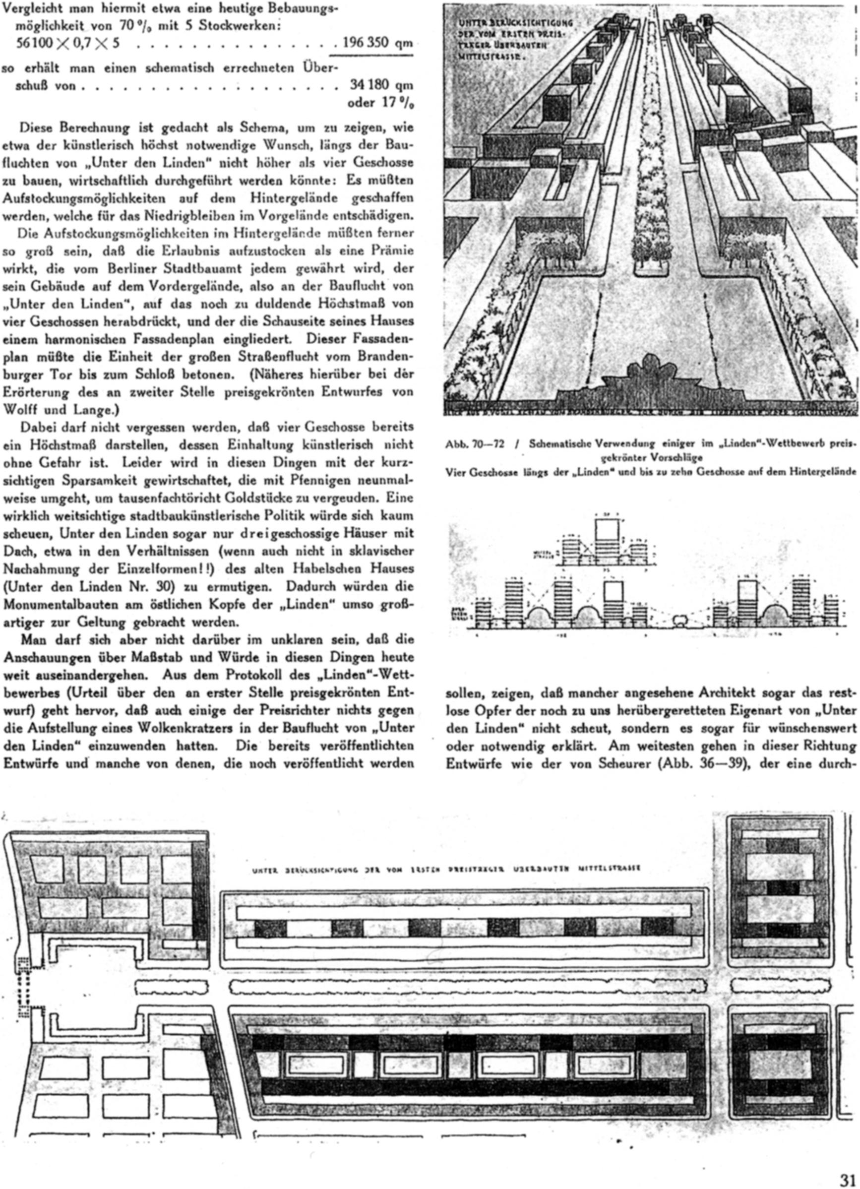 Design for the reorganization of Unter den Linden for the 1925 architectural design competition, perspective, cross section, and plan. From Städtebau (1926): p. 31.